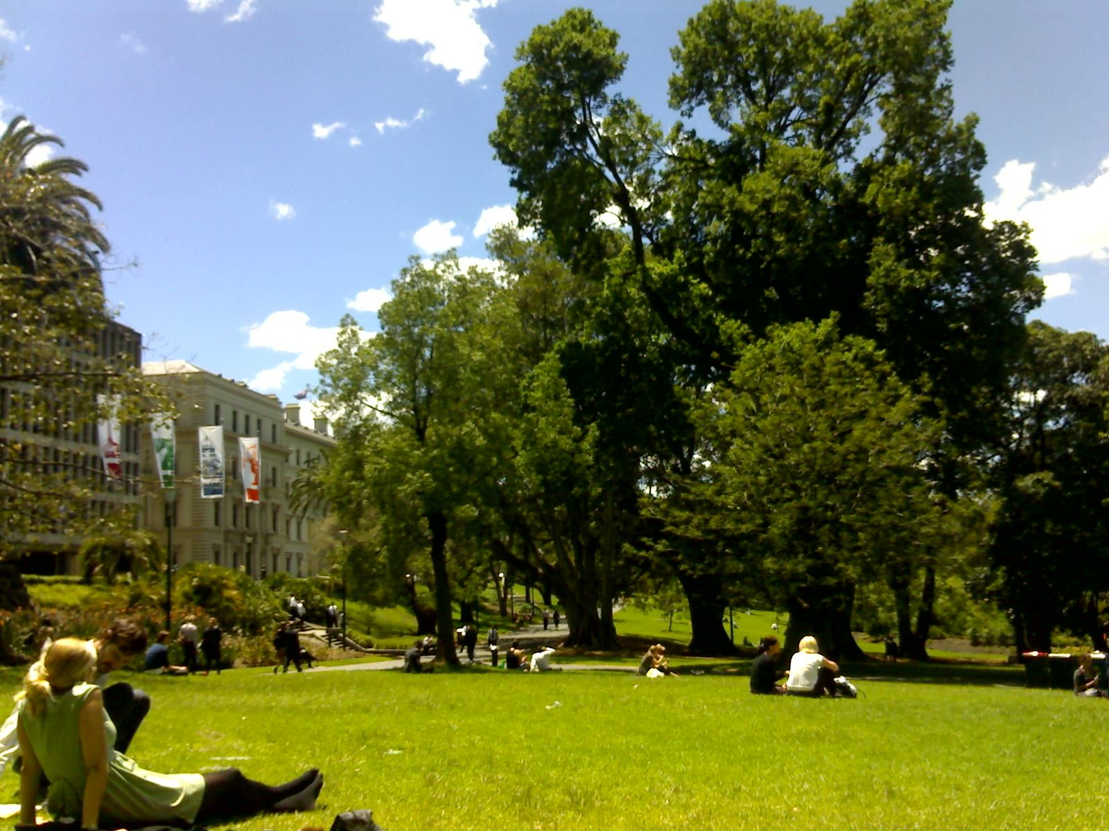 Treasury Gardens 2. Taken during a nice, sunny day.